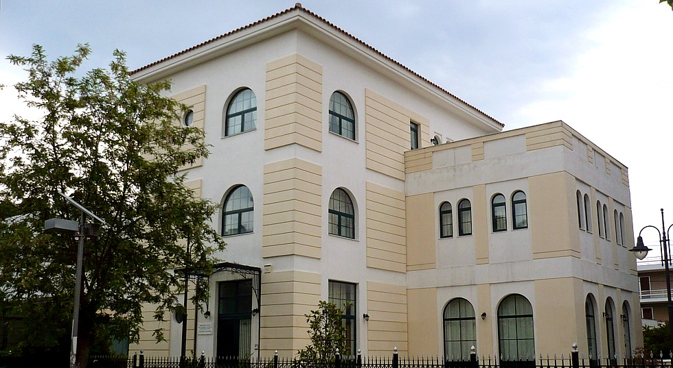 The picture depicts the Analipseos Cultural Hall at Vrilissia.